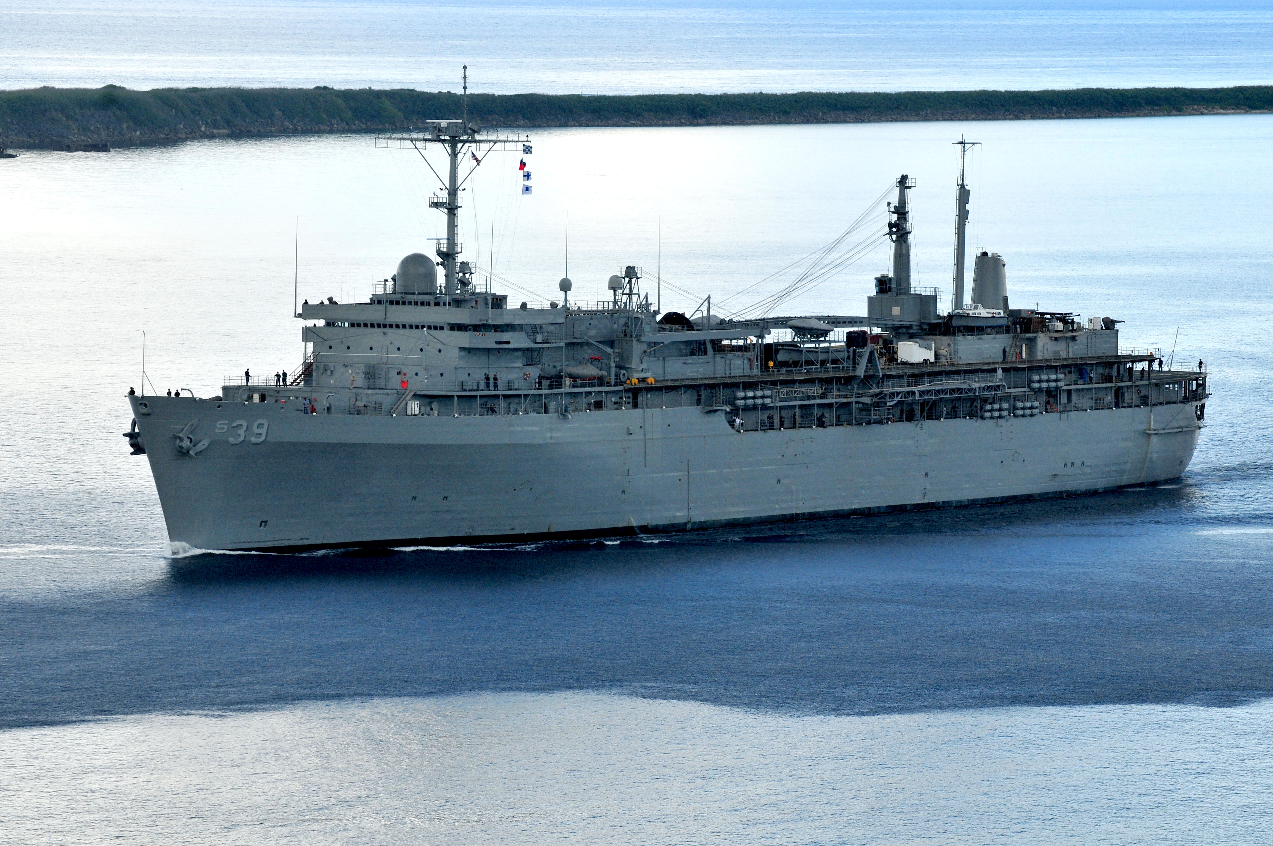 SANTA RITA, Guam (July 23, 2010) The submarine tender USS Emory S. Land (AS 39) transits through Apra Harbor after a port visit to Naval Base Guam. Emory S. Land is conducting a homeport shift from Bremerton, Wash., to Diego Garcia. (U.S. Navy photo by Mass Communication Specialist 3rd Class Samantha A. Crosson/Released)